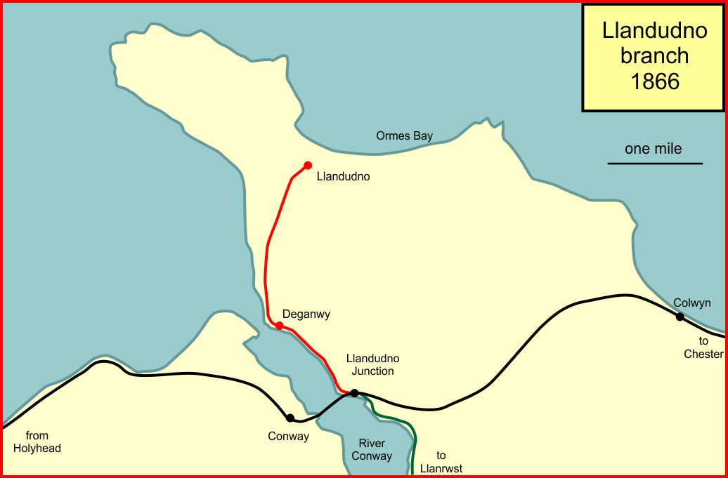 Diagram of the Llandudno branch railway line, North Wales in 1866.